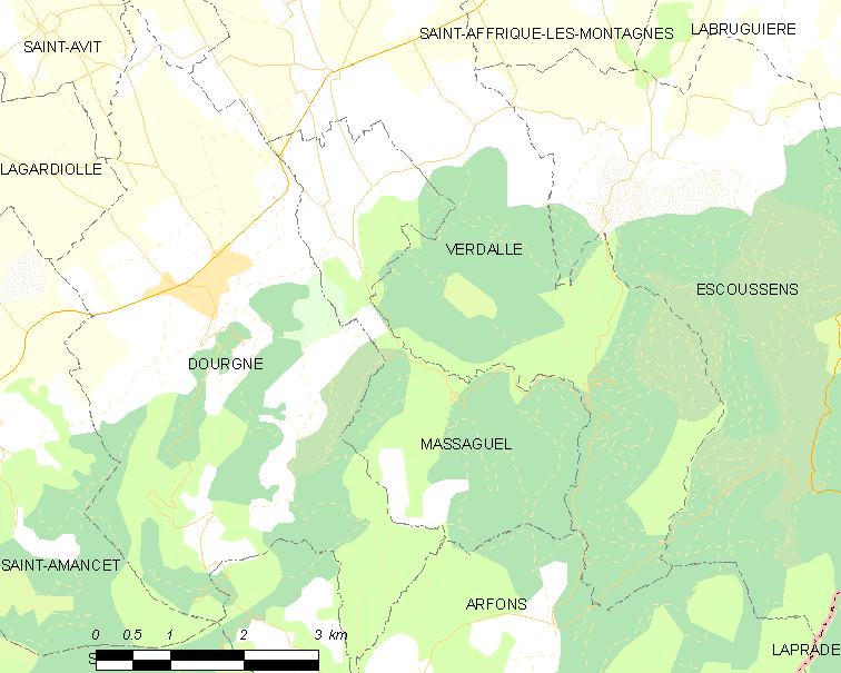 Map of French municipality Massaguel